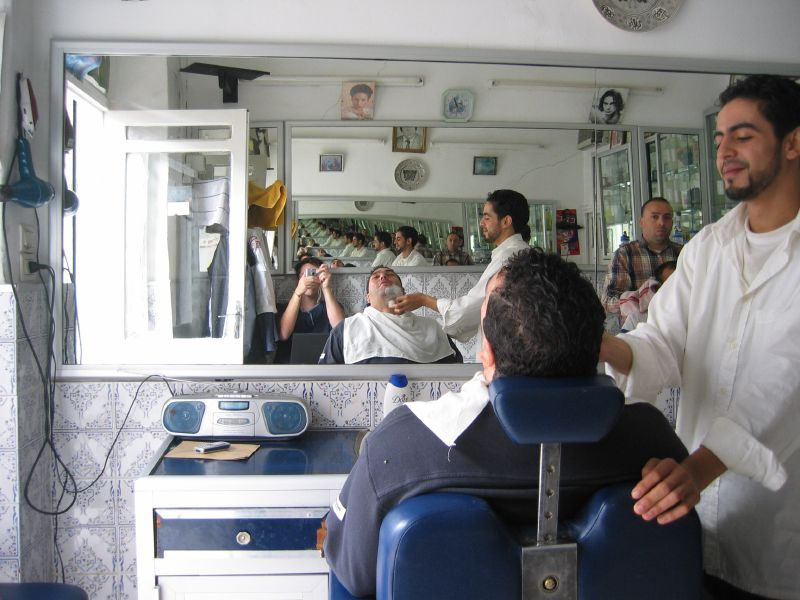 Walid gets a shave at the local barbershop.The Shave